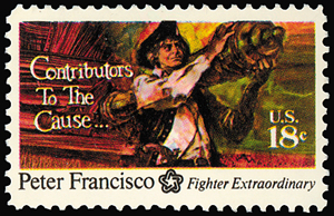 US stamp honoring Peter Francisco